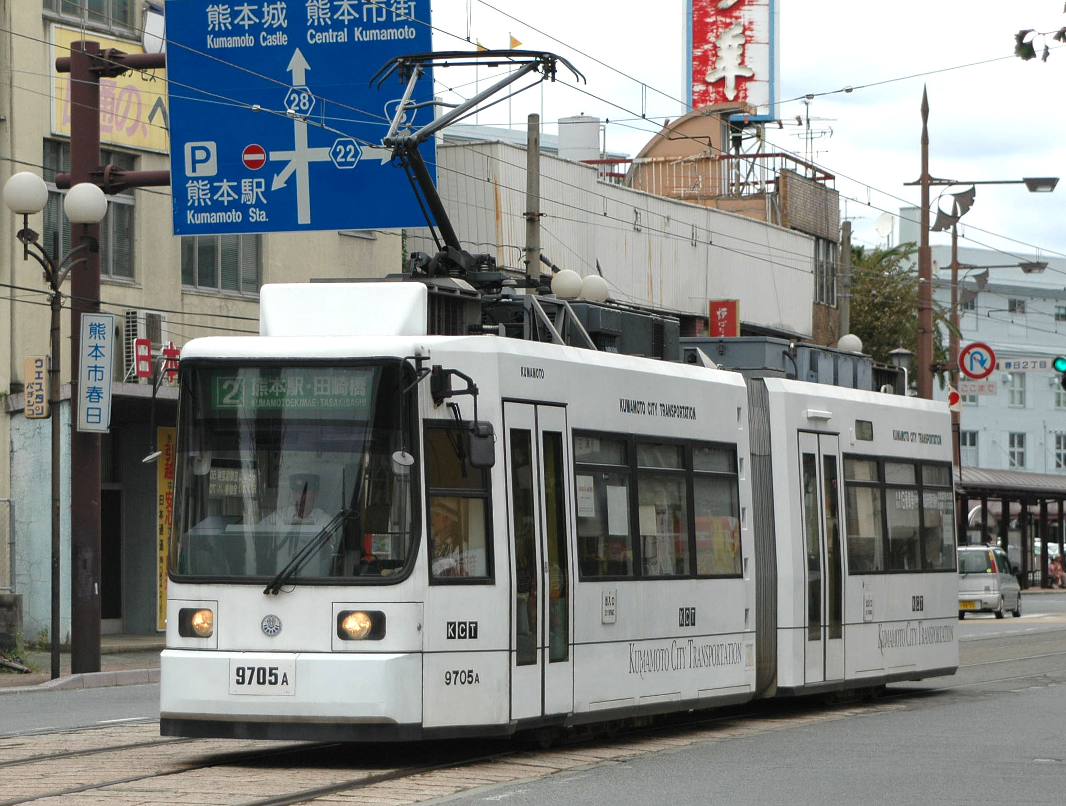 Kumamoto City tram type 9700 electric car. 熊本市電9700形電車。